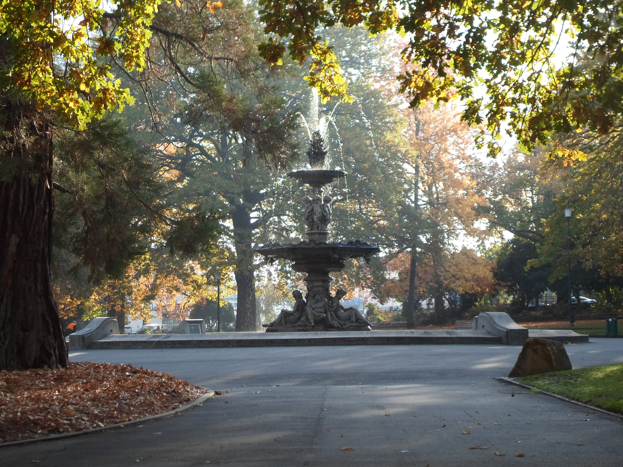 Autumn photo of the Barbezat & Co. Fountain by the foundries of Val d'Osne in Prince's Square, Launceston. The fountain was installed in 1859 to celebrate the completion of the town water supply in 1857.